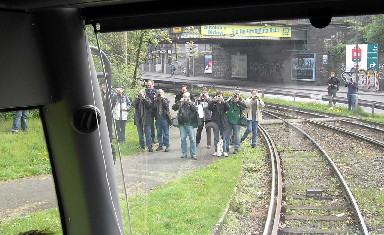 Railfans in Cologne, taking their first pictures of a new tram